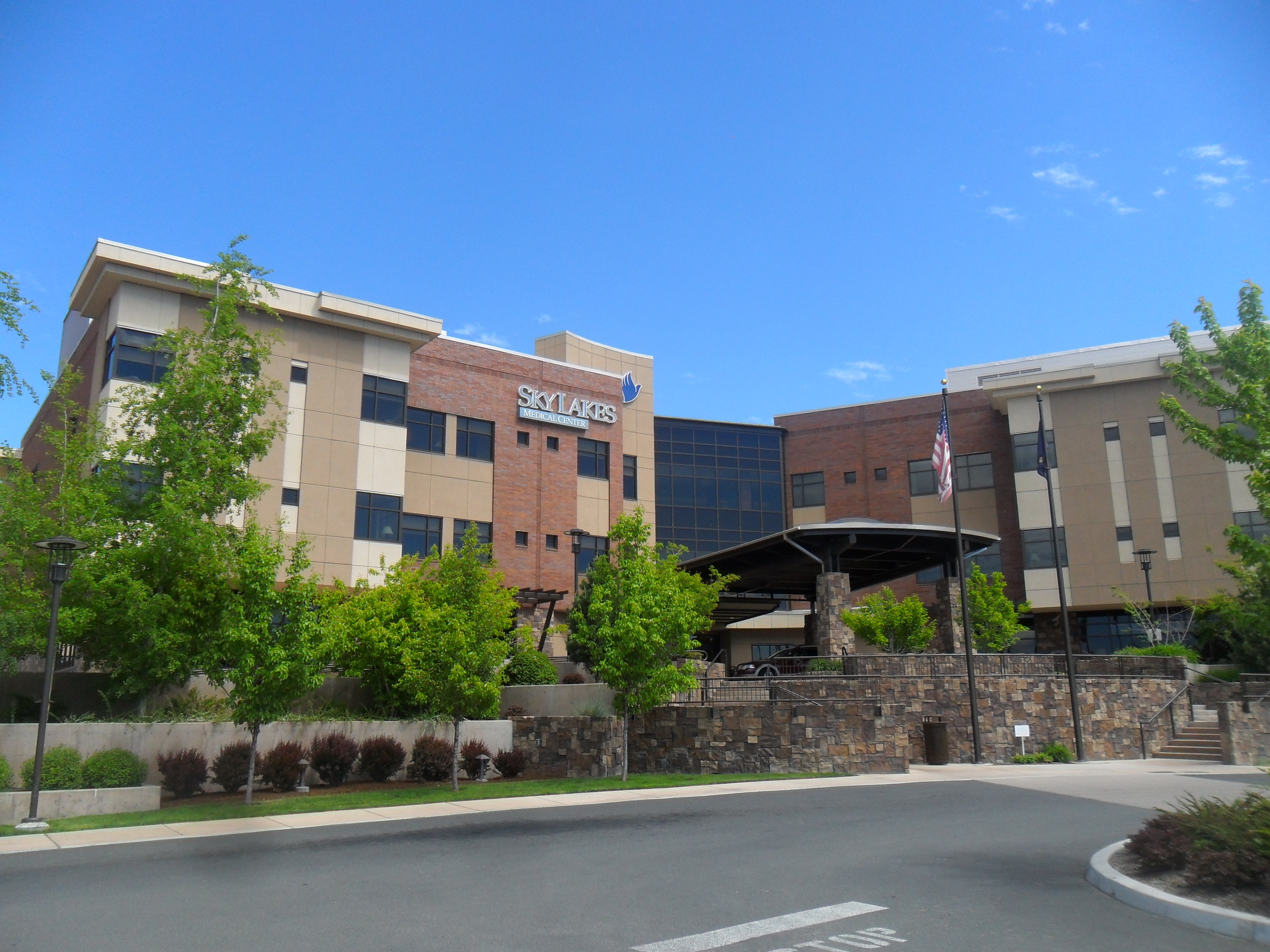 Sky Lakes Medical Center facade, Klamath Falls, Oregon